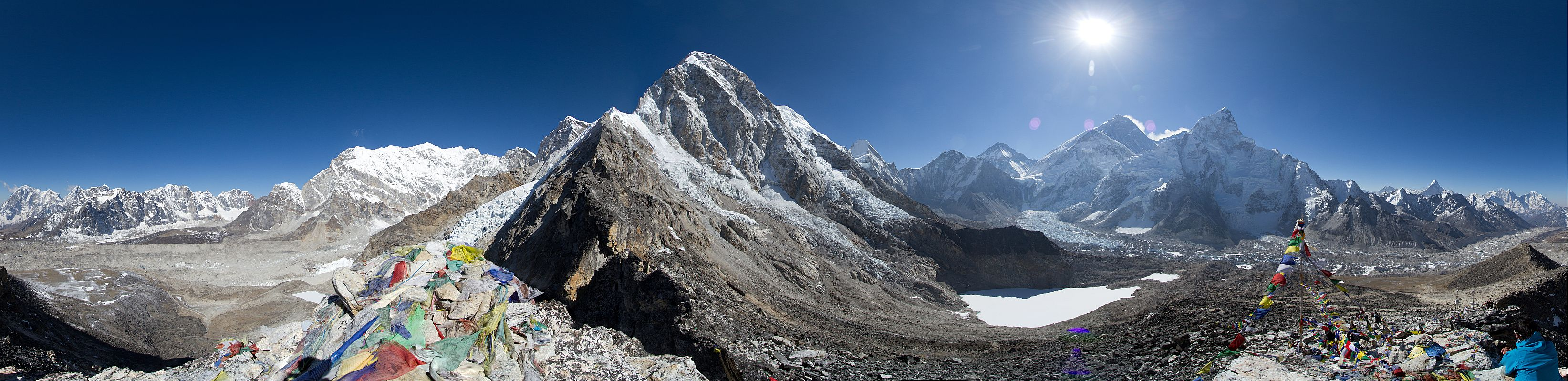 A view from the Mount Everest Base Camp(Altitude of 5,364 metres (17,598 ft)) - Gorak Shep to Pheriche .नेपाली: सगरमाथा आधार शिविरवाट देखिएको गोरकशेप देखि फेरिच्चे सम्मको एक मनोरम दृश्य ।